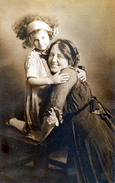 Ethel Myers & Virginia Myers (daughter) portrait